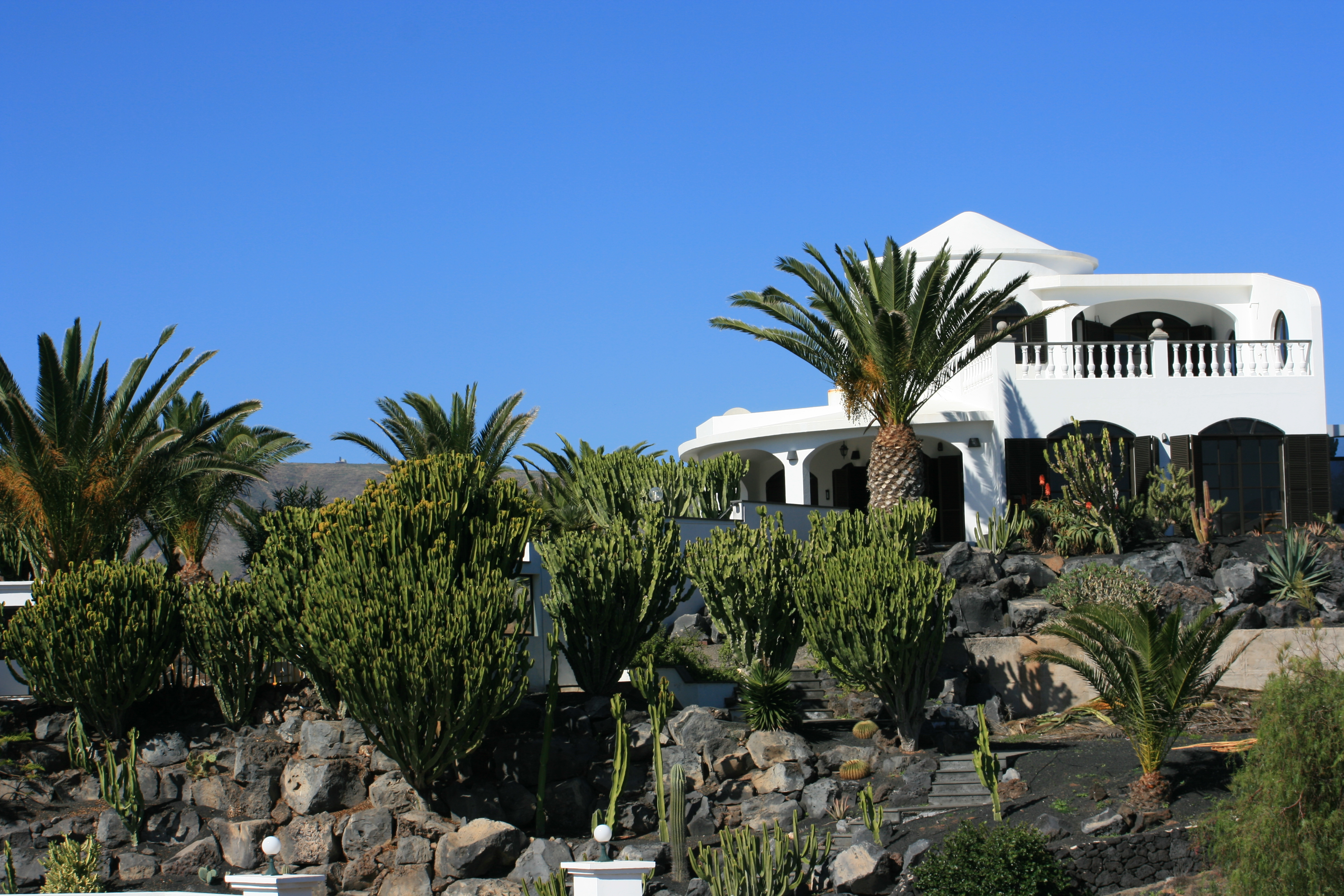 The holidayvilla Casa Ronda 1.